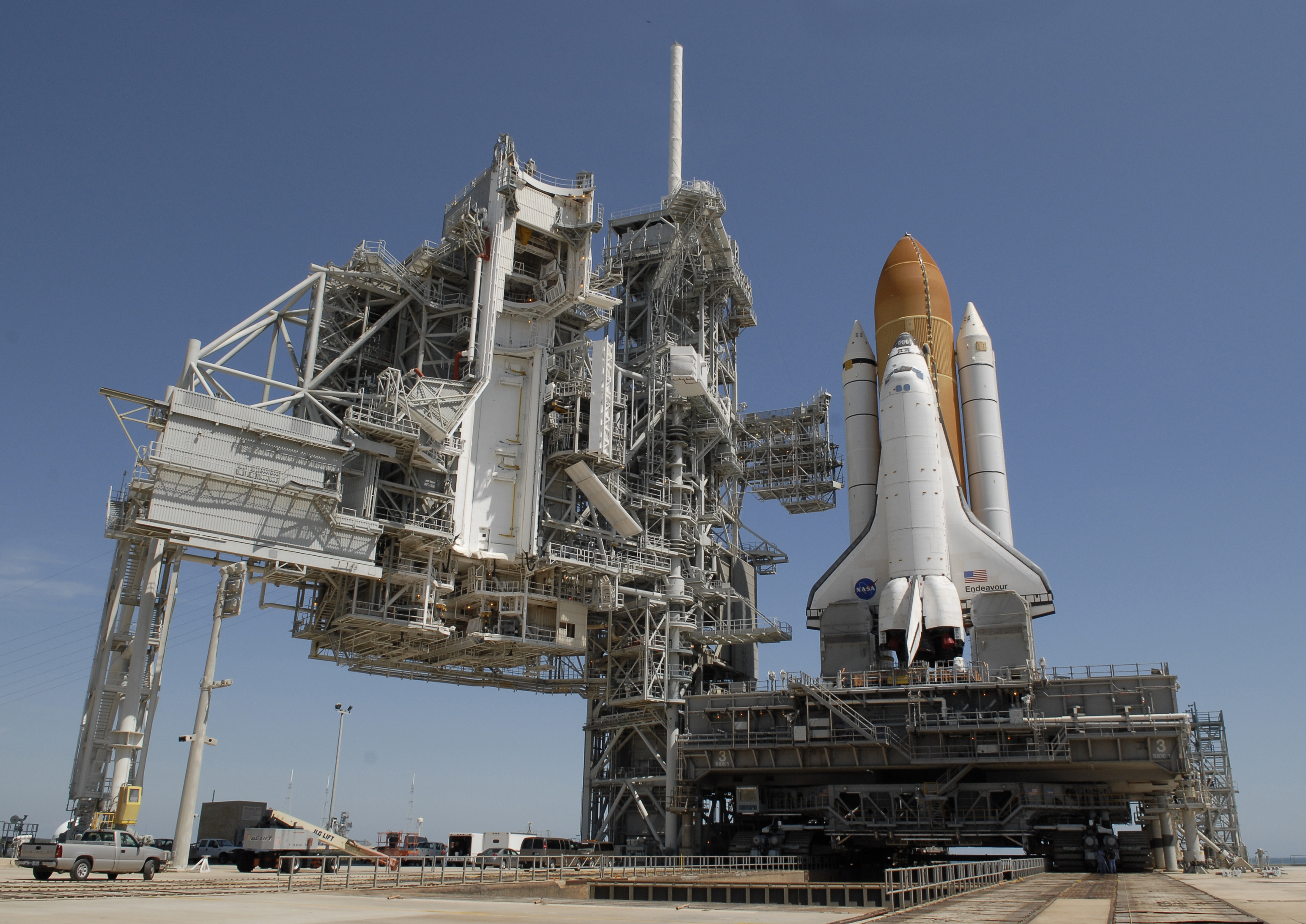 CAPE CANAVERAL, Fla. – At NASA's Kennedy Space Center in Florida, space shuttle Endeavour has arrived at Launch Pad 39A and was secured to the pad at 11:42 a.m. EDT. First motion of the 3.4-mile rollaround from Launch Pad 39B was at 3:16 a.m. EDT. Endeavour was on standby on Pad 39B to be used in the unlikely event that a rescue mission was necessary during space shuttle Atlantis' STS-125 mission to NASA's Hubble Space Telescope. The payload on Endeavour's next mission, STS-127, includes the Japan Aerospace Exploration Agency's Kibo Exposed Facility and the Experiment Logistics Module Exposed Section of the International Space Station. They will be installed on the Kibo laboratory already on the station. Launch of STS-127 is targeted for June 17 2009.